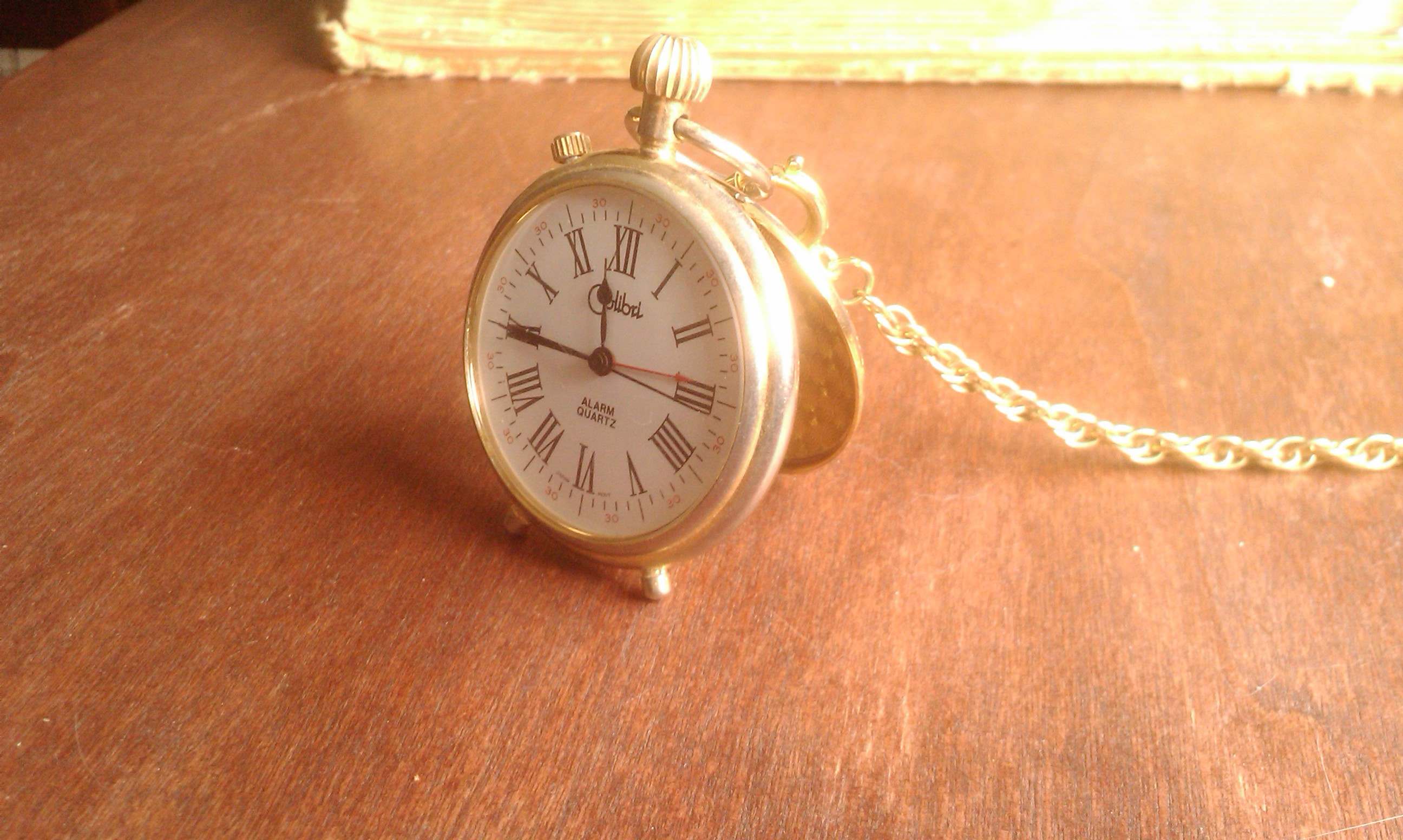 Pocketwatch, manufactured and sold ca. 1996. The back side has a hinged outer cover that folds out to allow the watch to stand upright on a table.